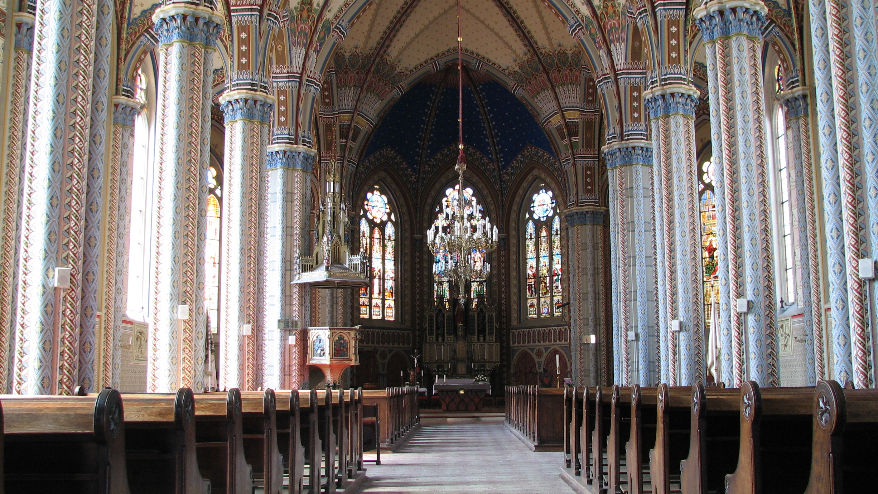 The interior of Sacred Heart Church in Kőszeg, Hungary